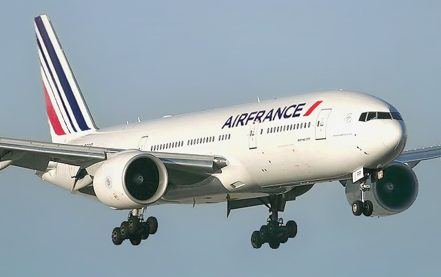 Air France Boeing 777-300ER landing at Montréal-Pierre Elliott Trudeau International Airport in September 2009.